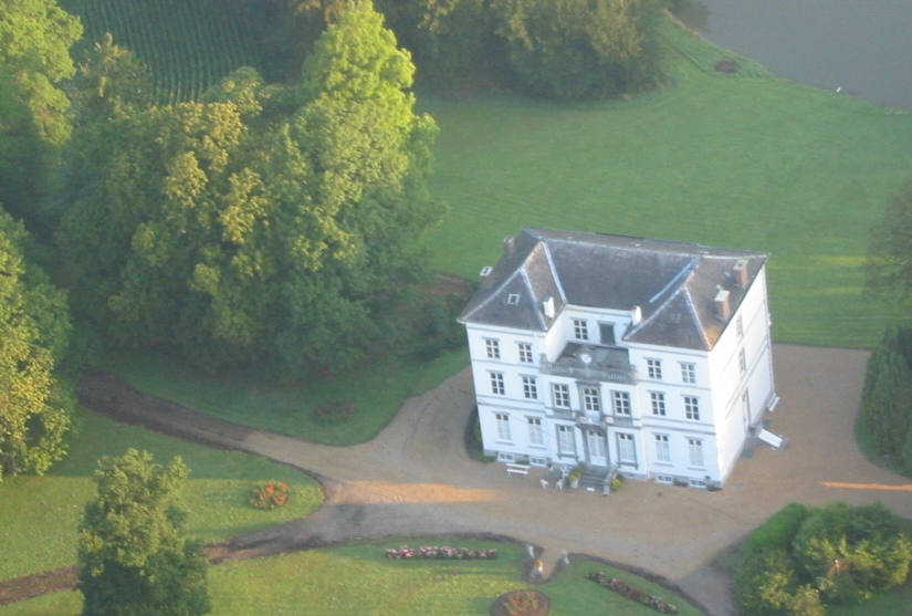 Castle Jongenbos, Vliermaalroot, Belgium